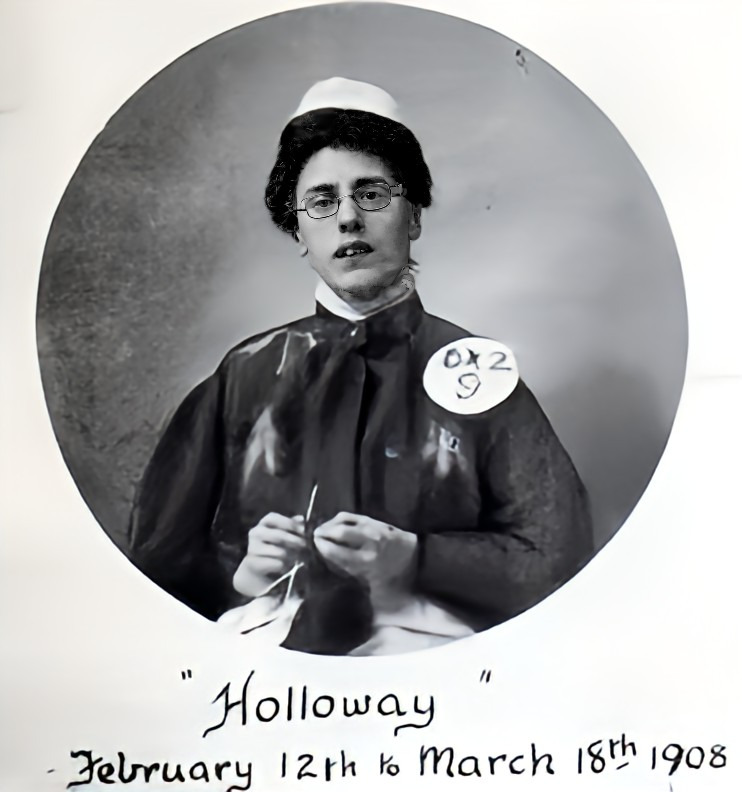 Louis Cullen double image see wiki